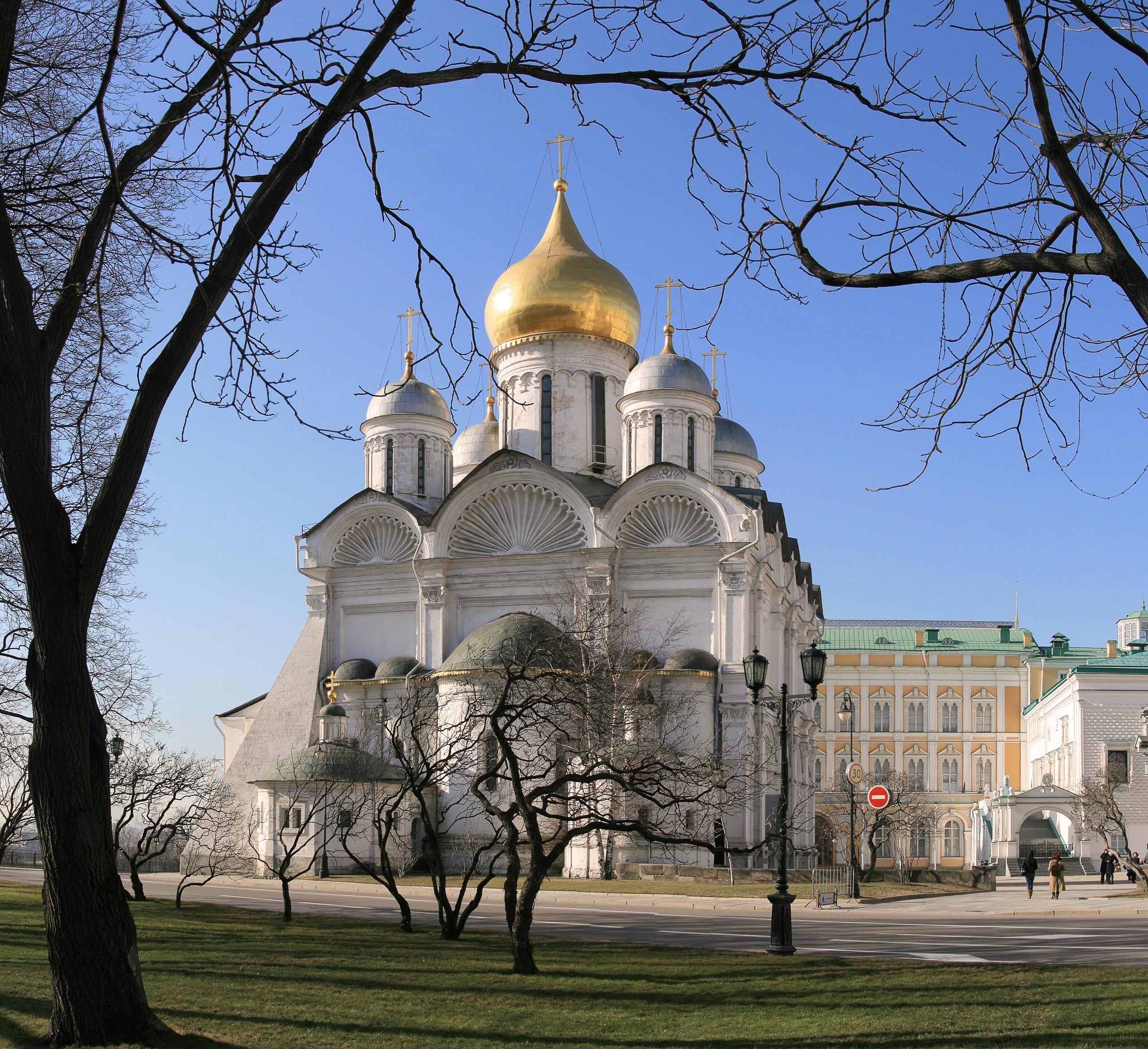 Moscow Kremlin, Cathedral of the Archangel